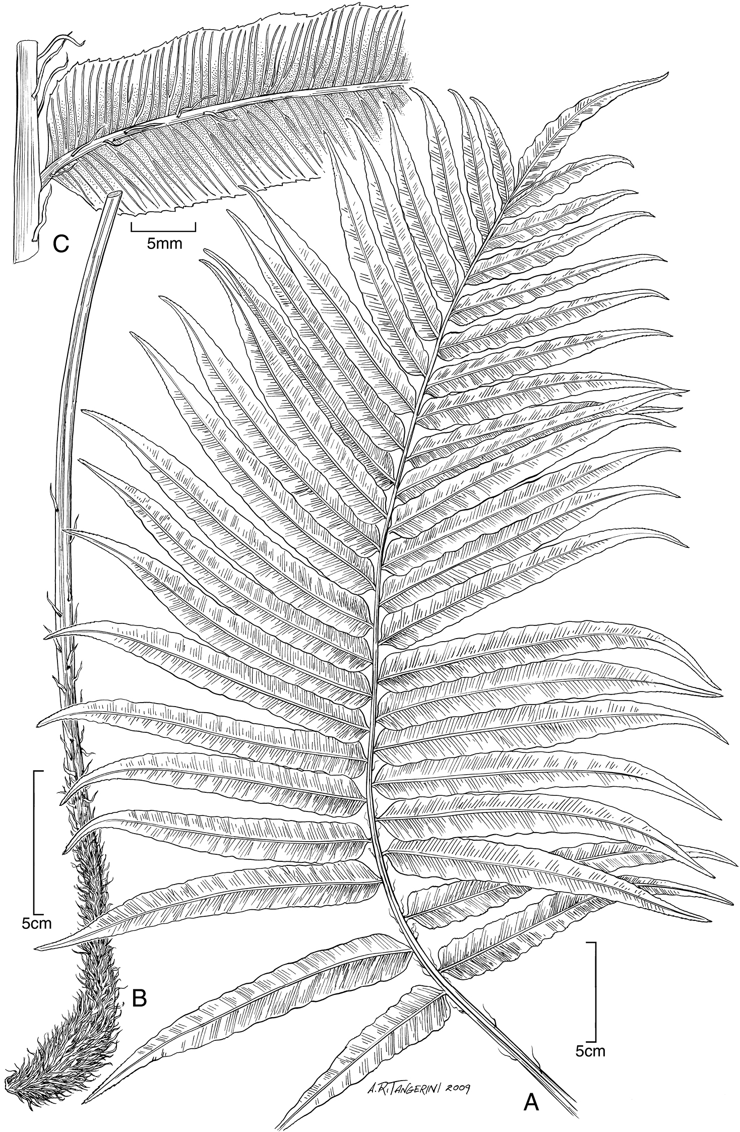 Blechnum pacificum Lorence & A. R. Sm. A sterile frond, blade B sterile frond, stipe C sterile frond, pinna base. Drawn from the type collection (Dunn and Lorence 481).